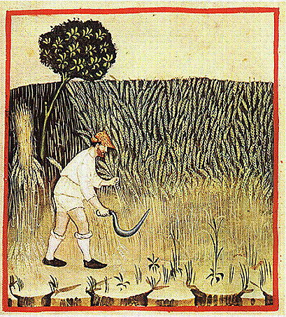 Rye (Siligio) Nature: Cold and dry in the second degree. Optimum: That which has been thoroughly ripened. Usefulness: It breaks down the concentration of humors. Dangers: Bad for those suffering from colic or melancholia. Neutralization of the Dangers: With plenty of wheat. From the Theatrum of Casanatense